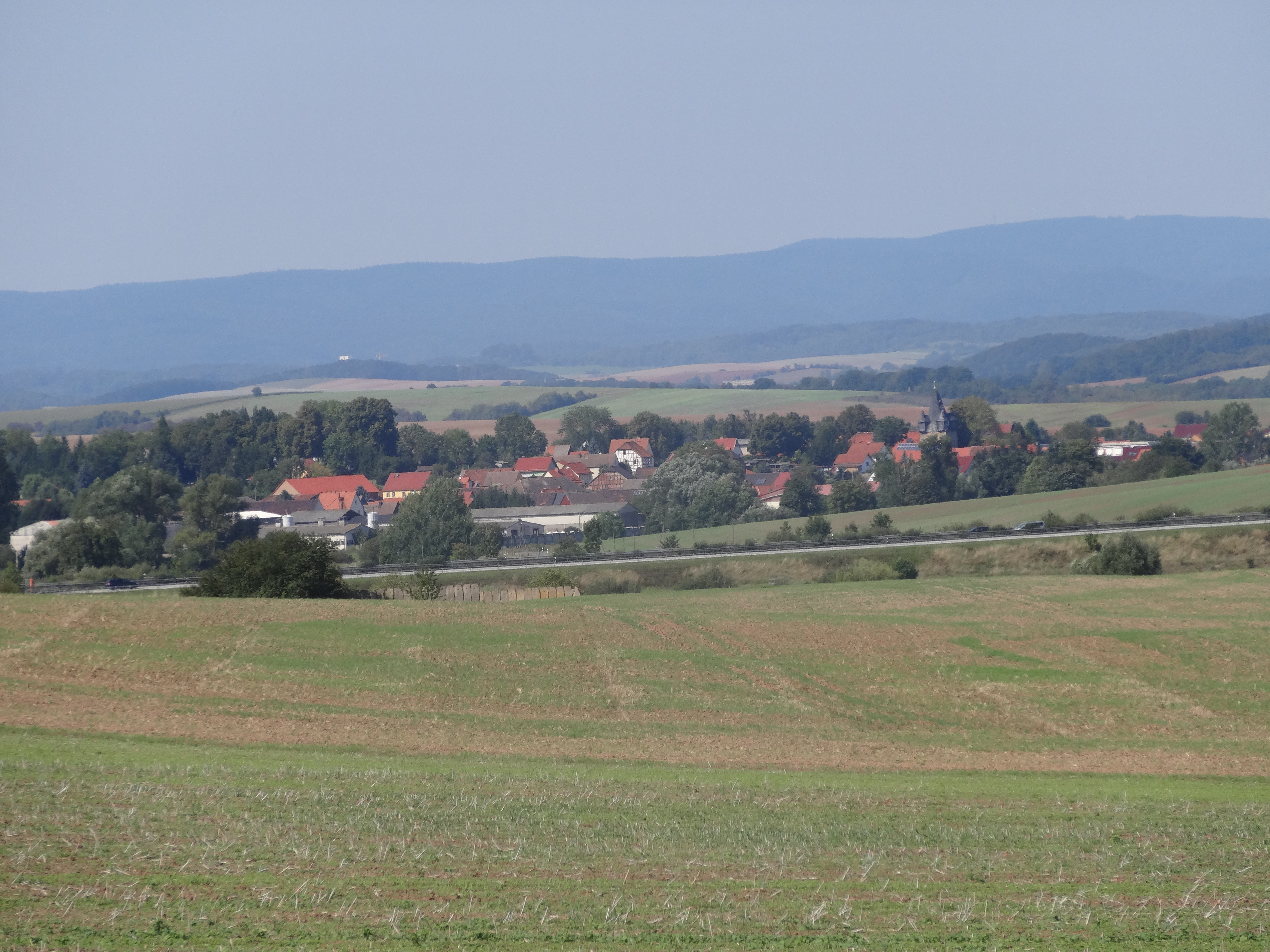 View on Großwechsungen, Thuringia, Germany